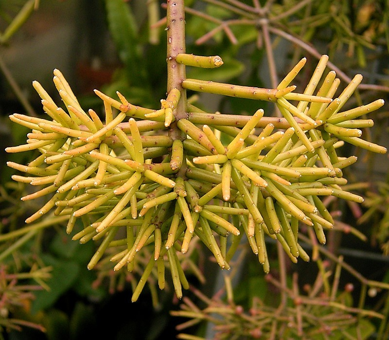 Rhipsalis teres